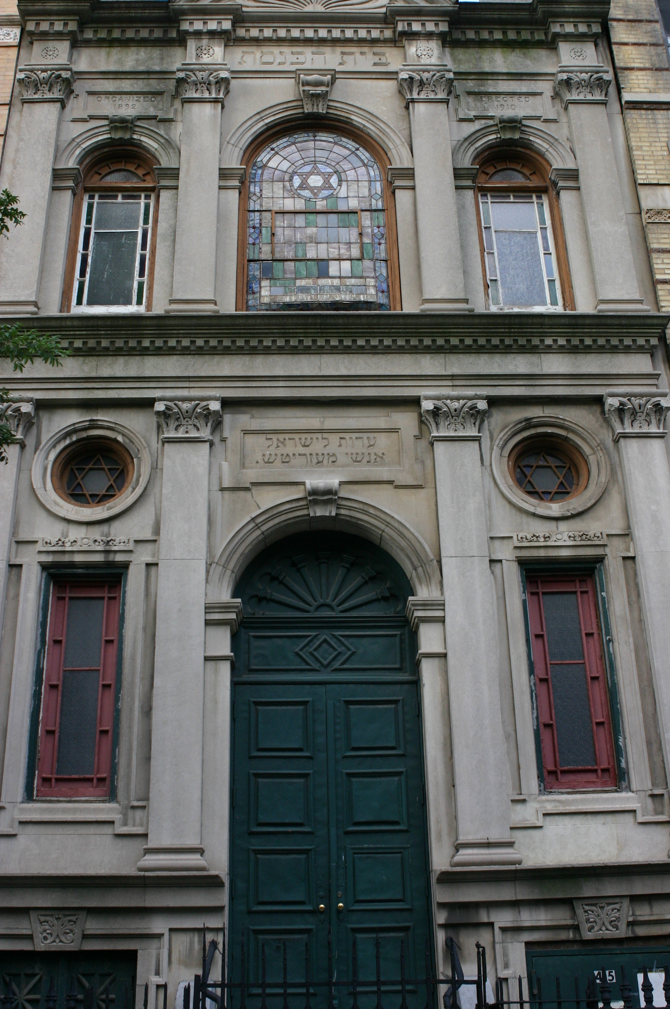 This photo is of Wikis Take Manhattan goal code F21, Congregation Adas Yisroel Anshe Mezeritz.